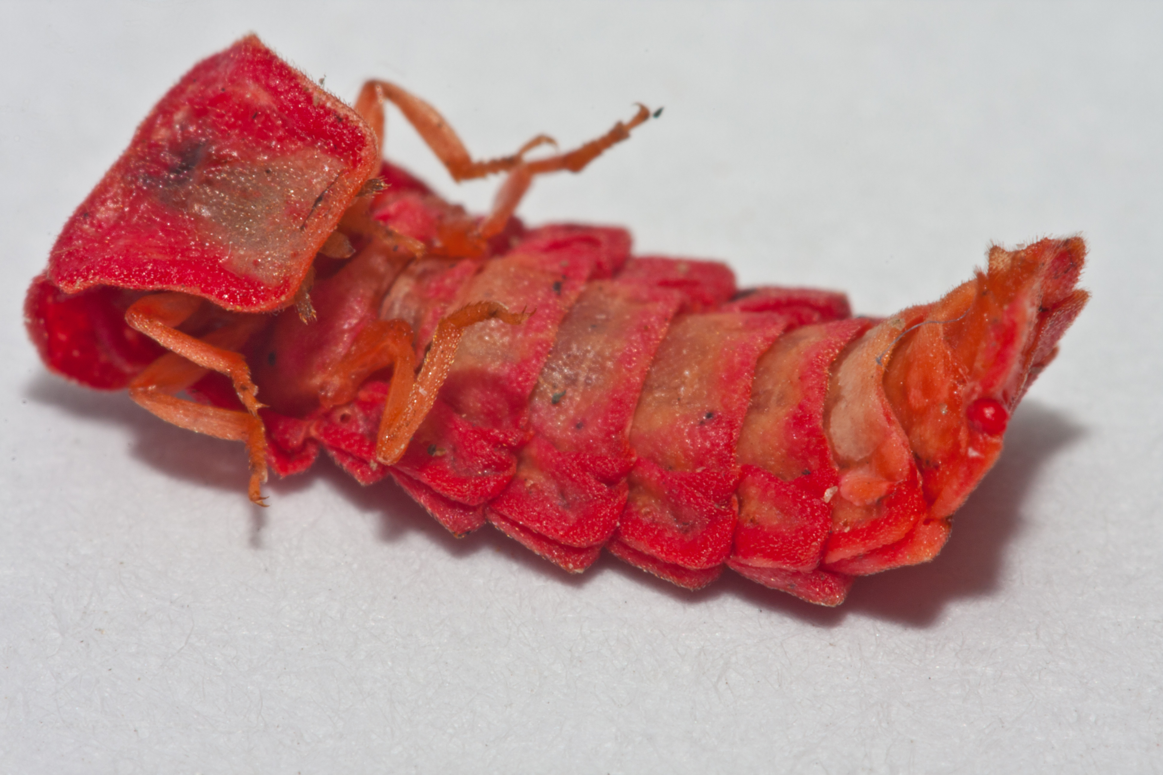 While hiking on Garcia Trail, my friends spotted some of these glowworms (larvae fireflies). They really are an interesting sight. I took this shot at around 2:1 magnification. May 15th.